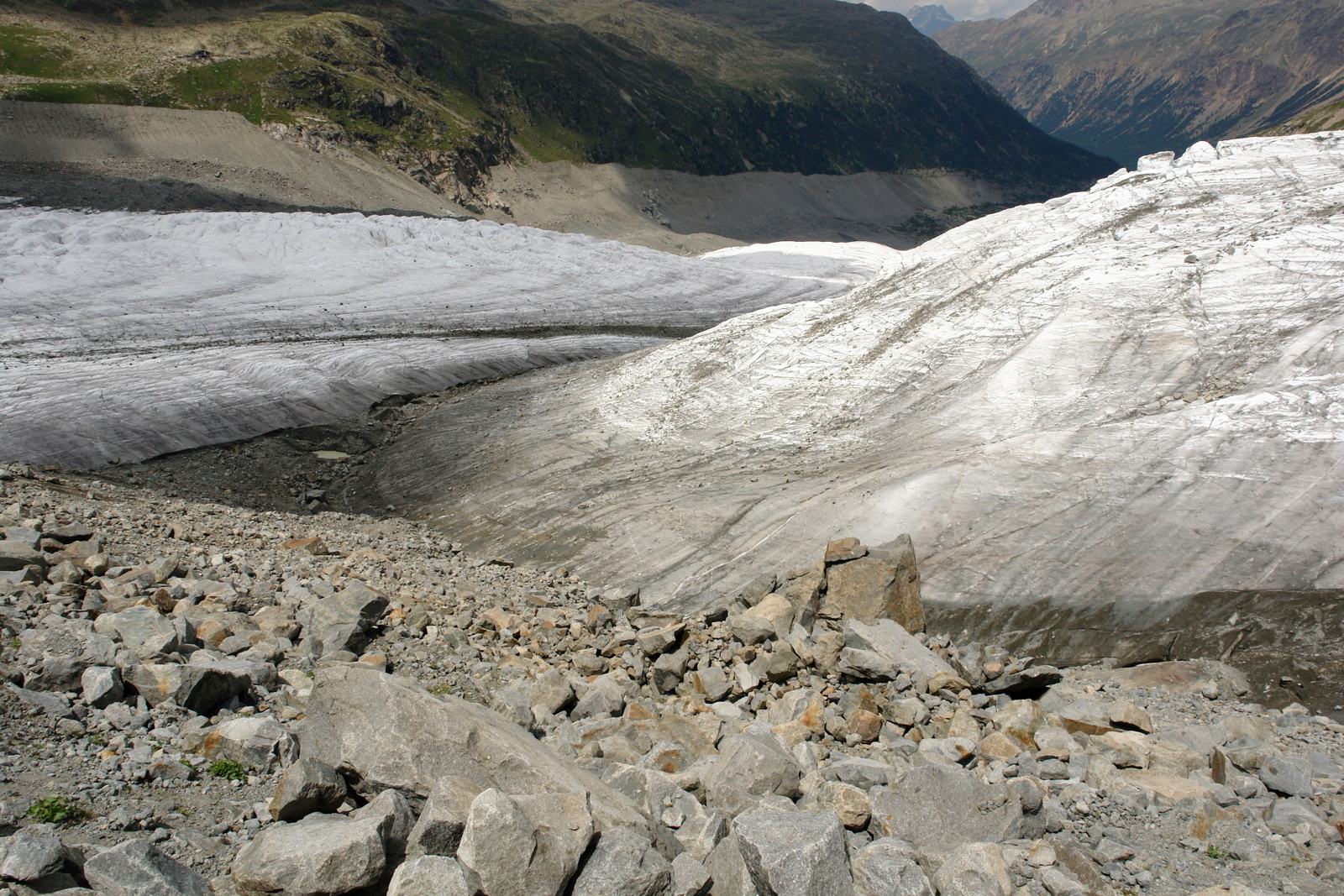 Confluence of Morteratsch-Glacier (left side) with Pers-Glacier. In the background the Boval hut.